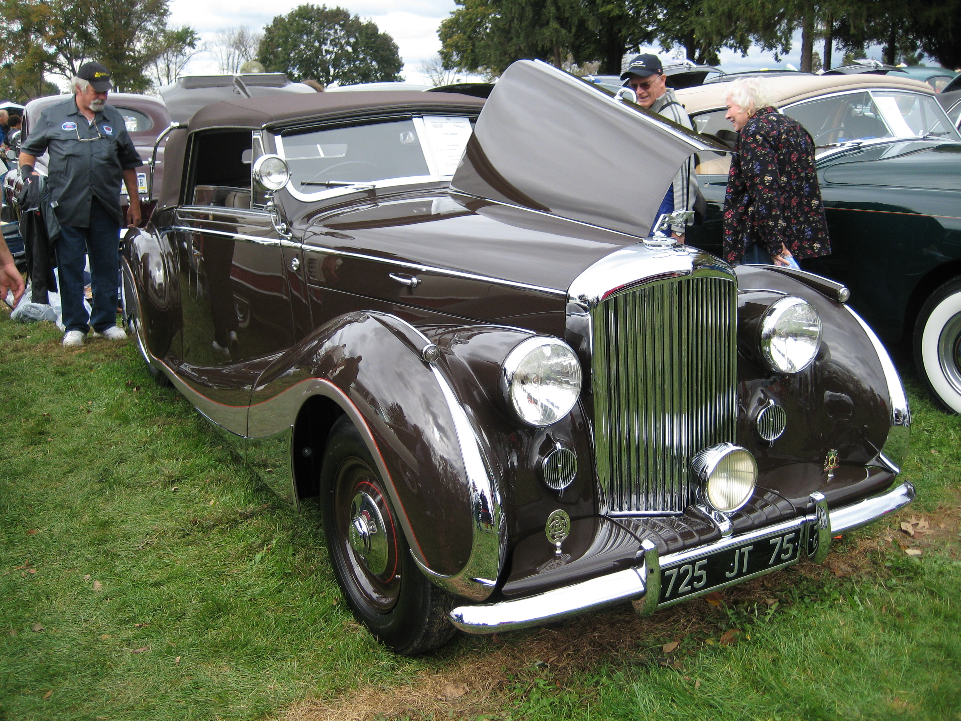 Bentley Mark VI coupé by Franay 1947 Seen in the judged car show on the last day, AACA Eastern Region Fall Meet, Hershey, Pennsylvania, October 2009